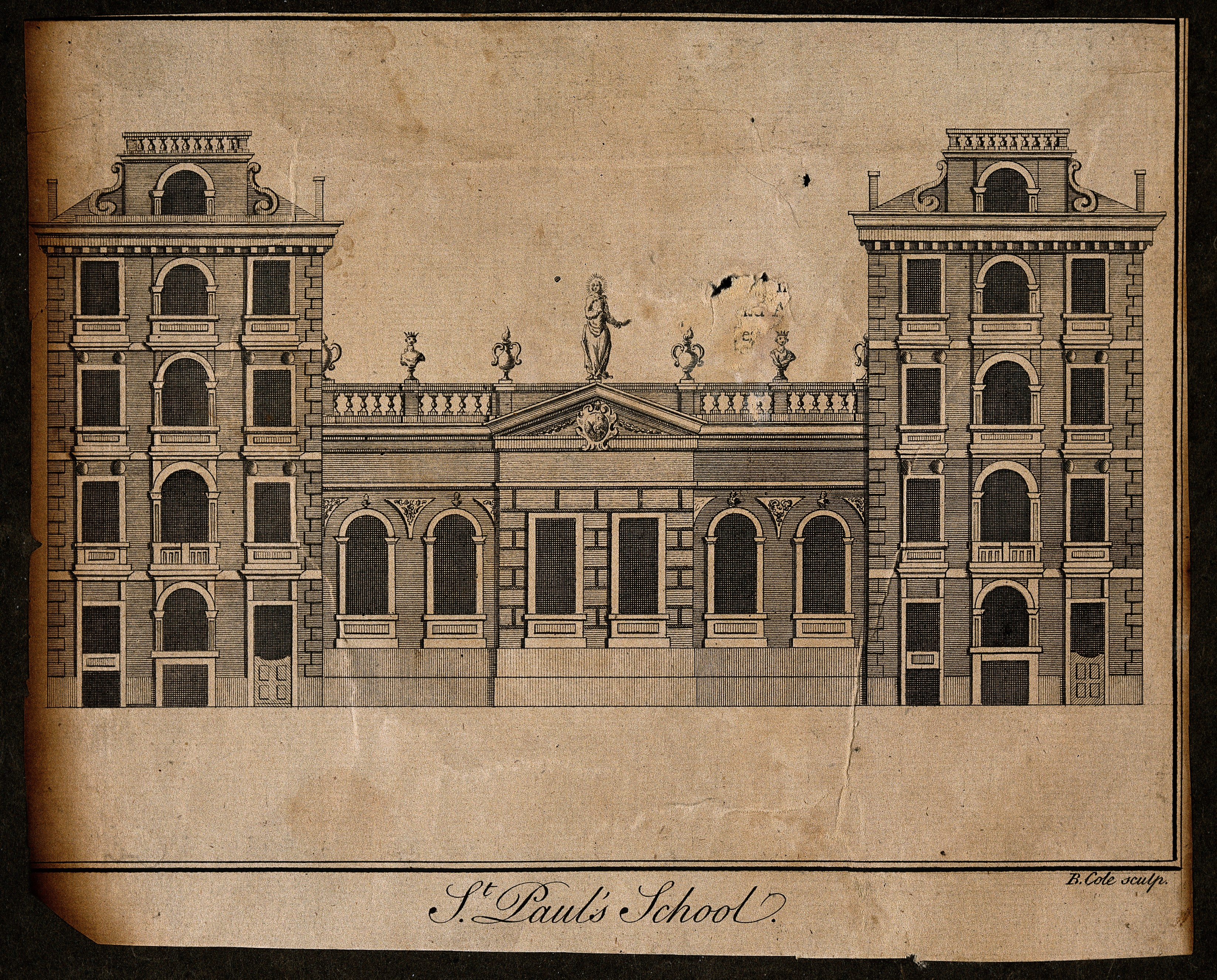 St Paul's School, London: the facade. Engraving by B. Cole, 1755. Iconographic Collections Keywords: St Paul's School (London, England); Benjamin Cole